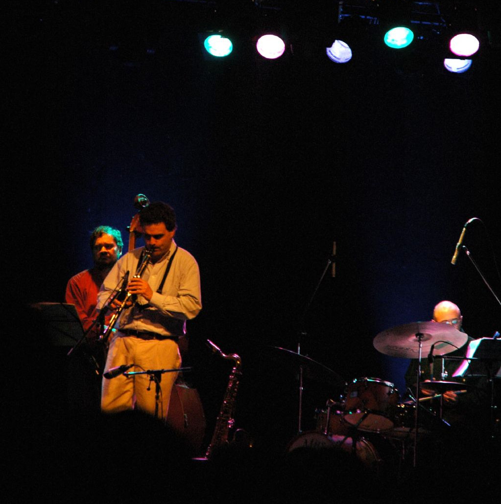 The Adrian Iaies Quartet at the Notorious Jazz Club, Buenos Aires.